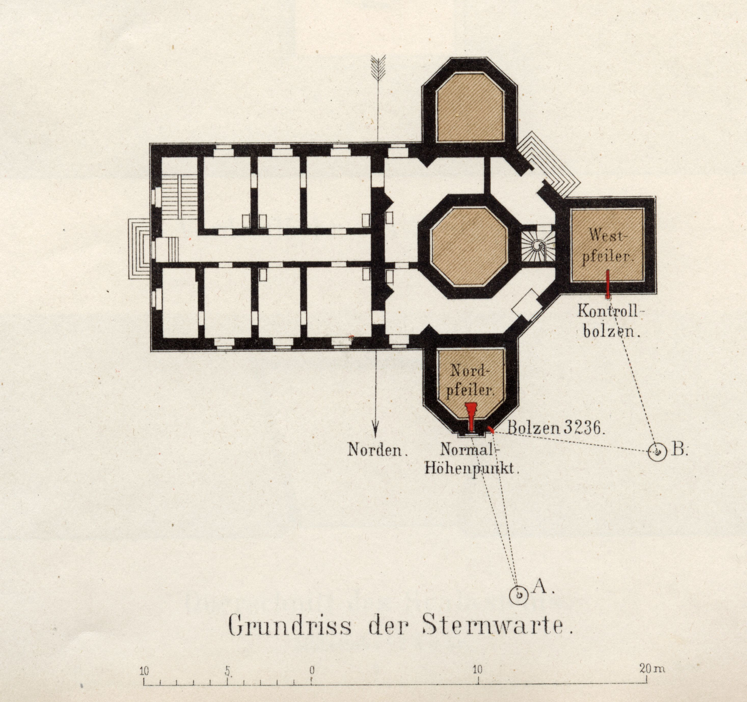 Royal Observatory in Berlin, footprint 1879